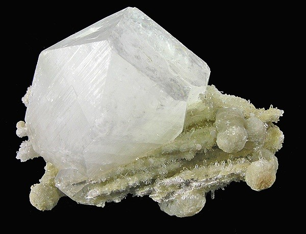 Apophyllite-(KF), Gyrolite Locality: Pune District (Poonah District), Maharashtra, India (Locality at ) Size: 5.5 x 4.1 x 3.9 cm. A blocky, colorless fluorapophyllite, with good luster, sits atop a natural base of light pea-green gyrolite that has formed balls intermixed with gemmy little fluorapophyllites.